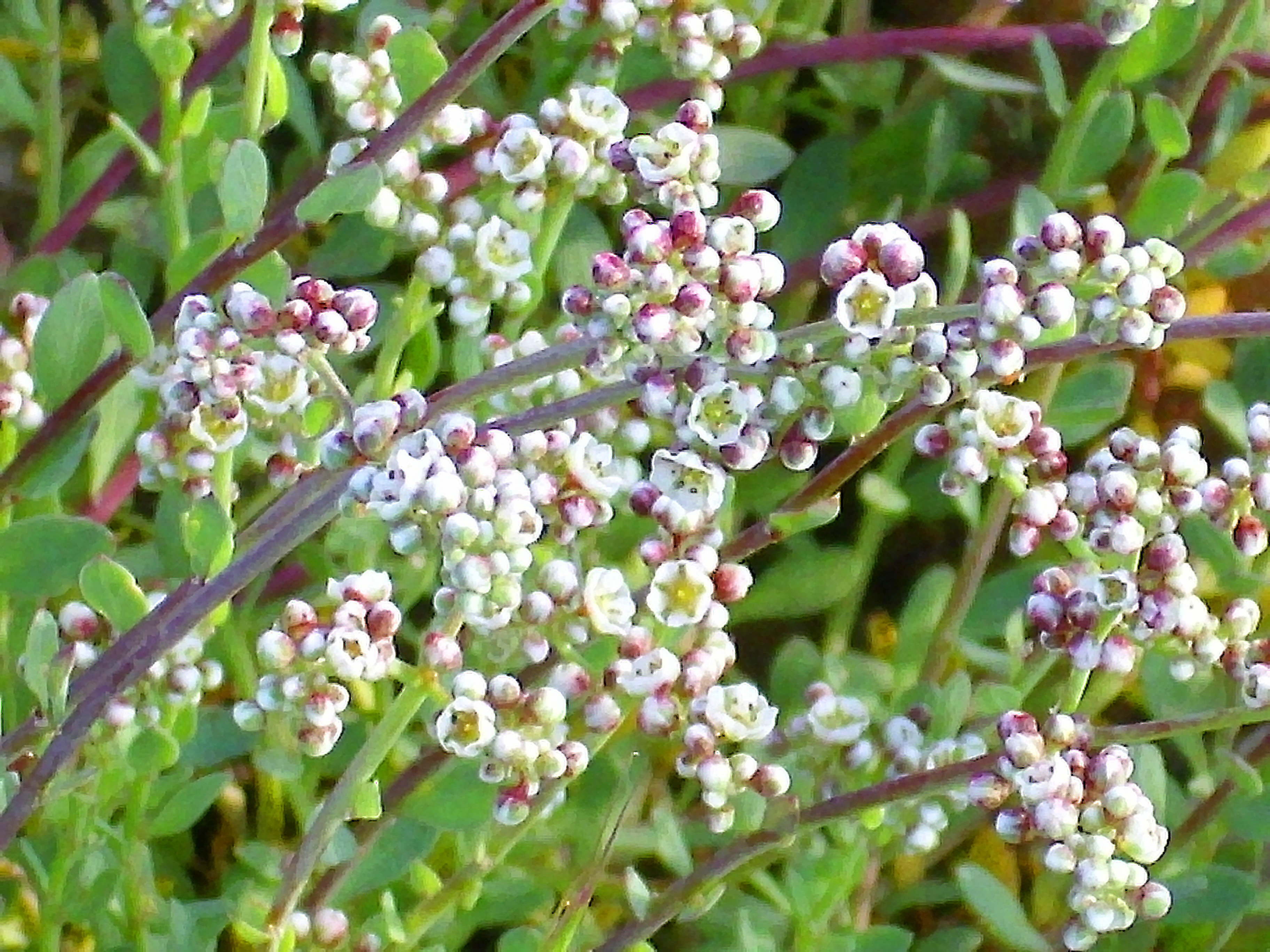 Corrigiola telephiifolia flowers close up, Sierra Madrona, Spain